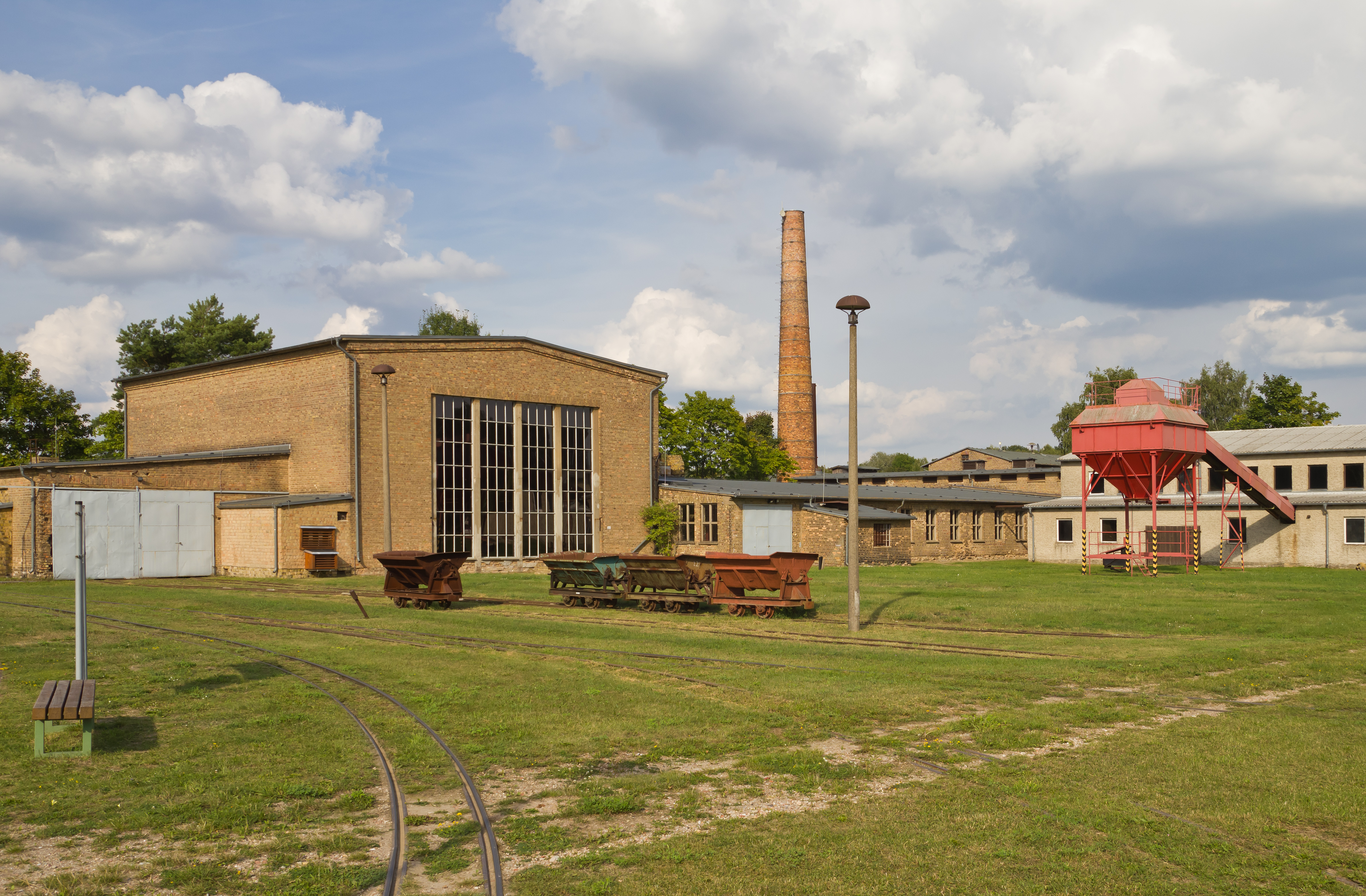 Brickyard Park in Mildenberg (Zehdenick), Brandenburg, Germany.